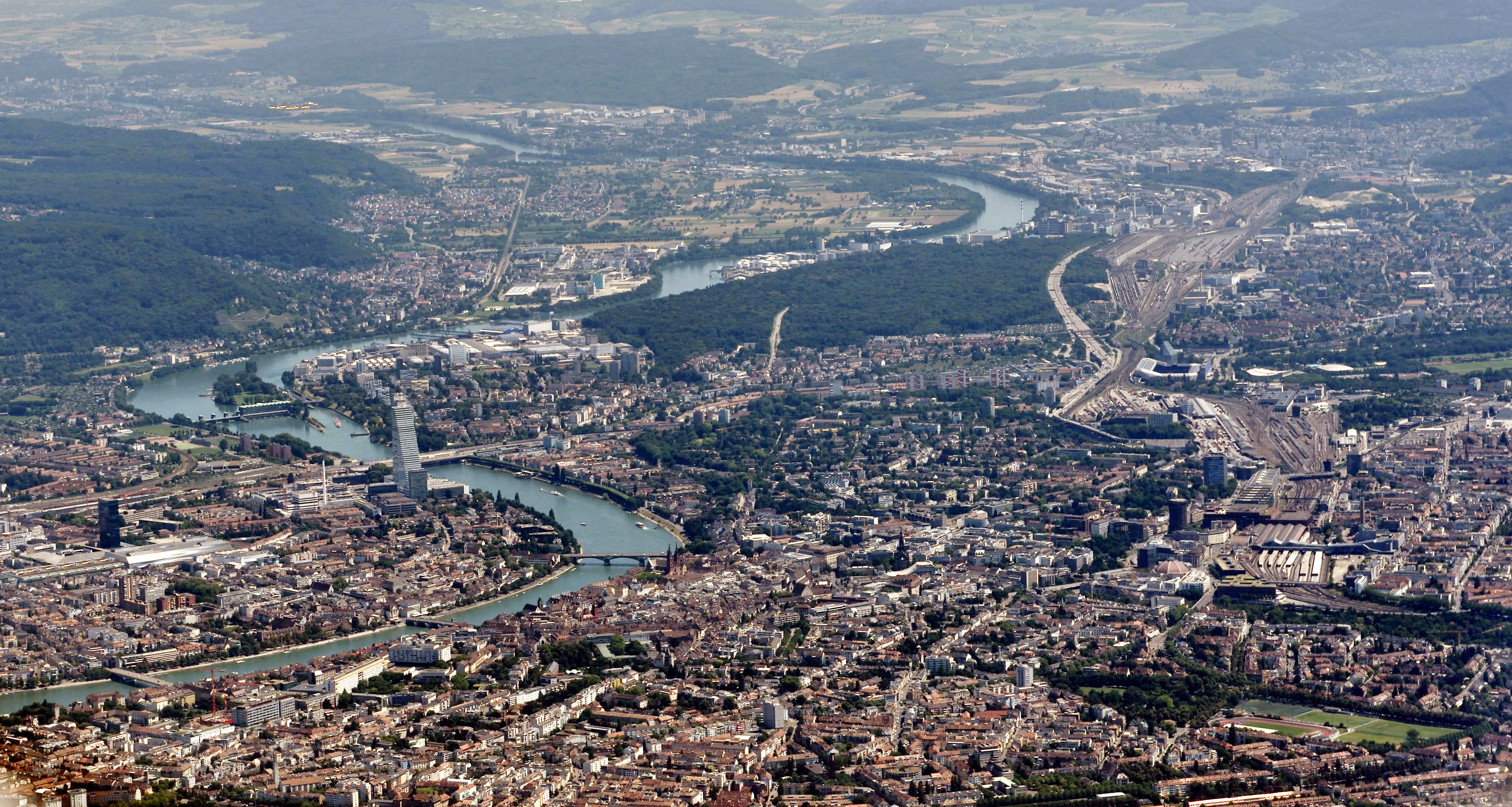 Basel: aerial view